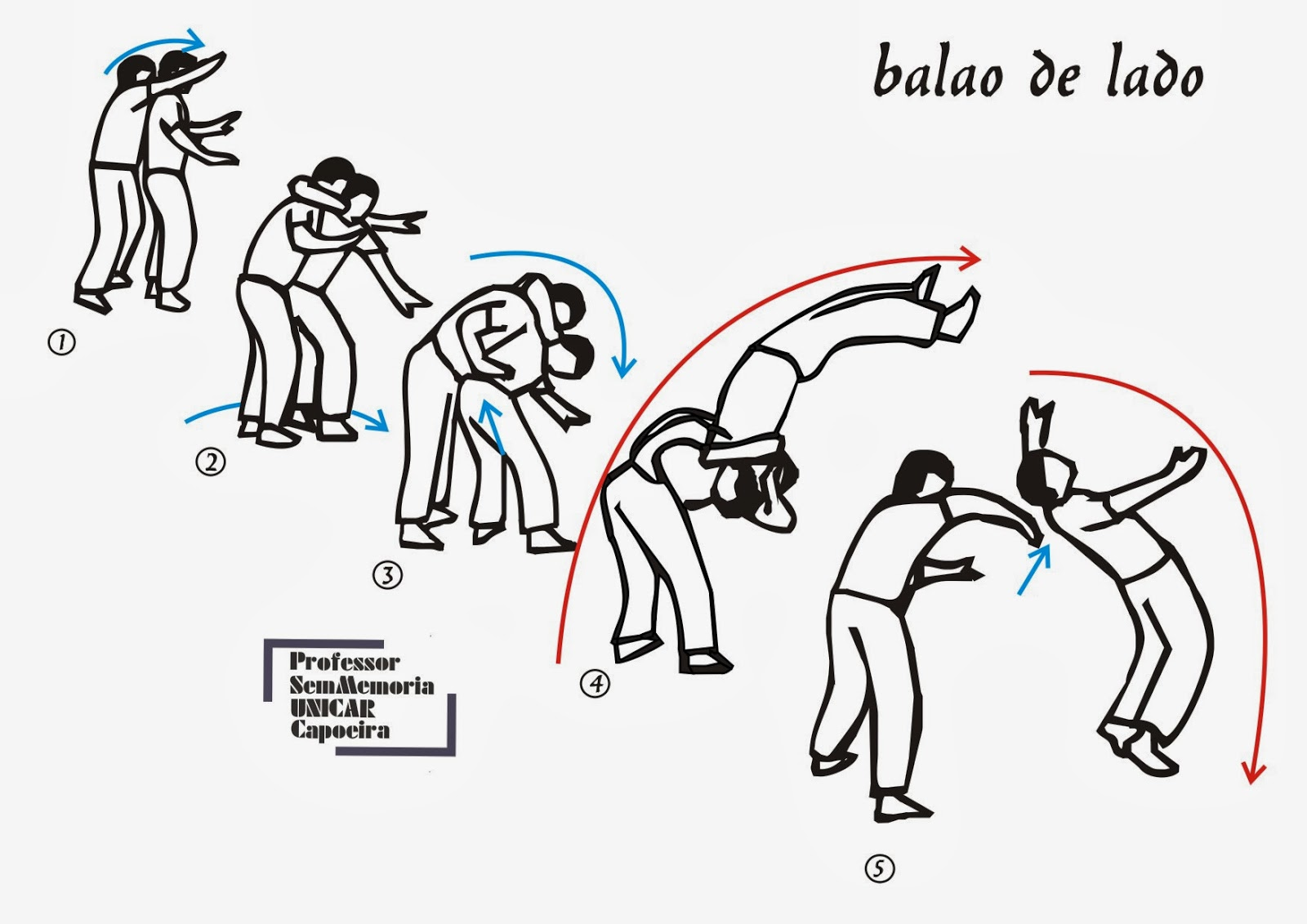 Capoeira takedowns